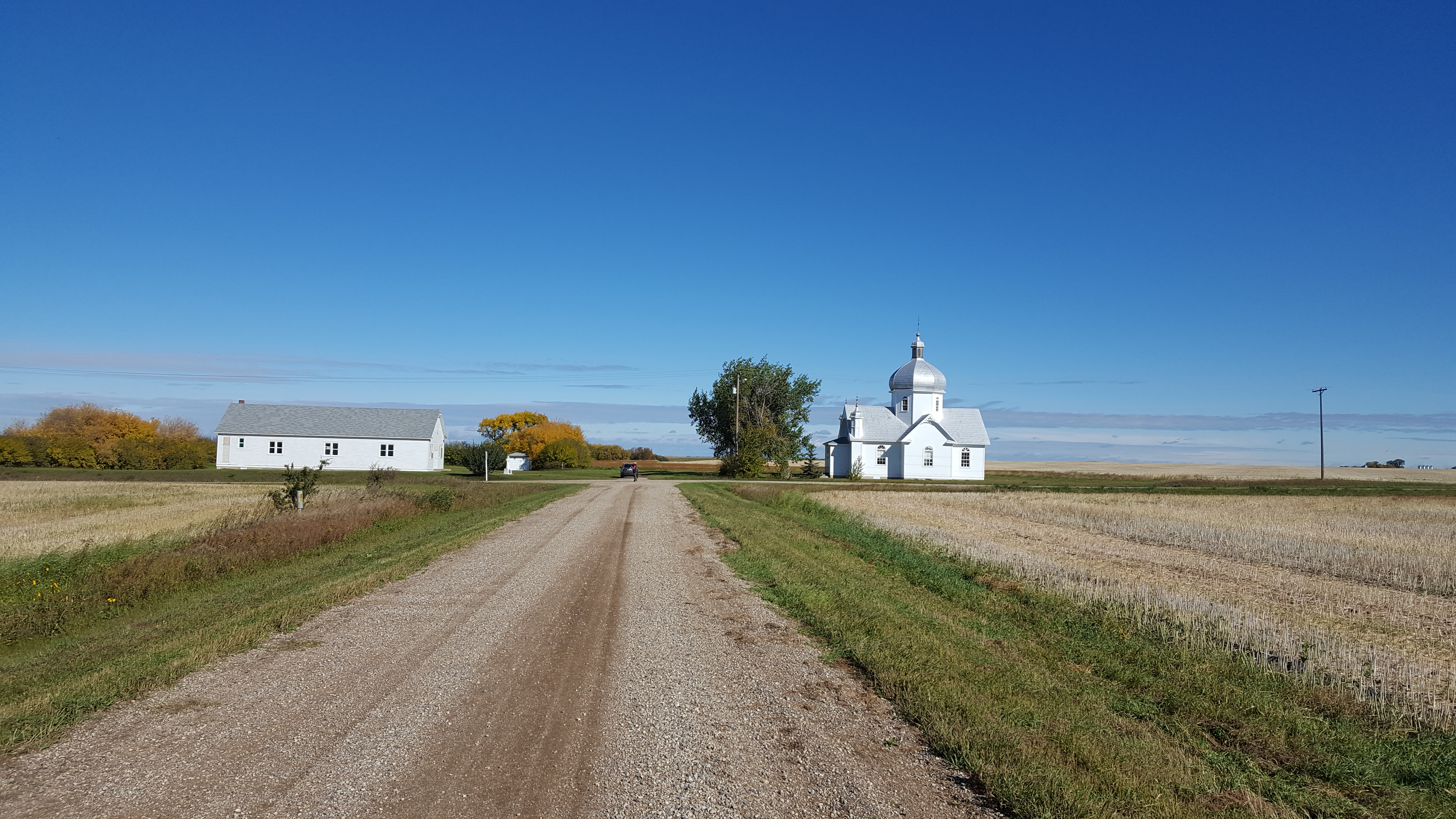 Holy Trinity Ukrainian Greek Orthodox Church near Smuts, Saskatchewan